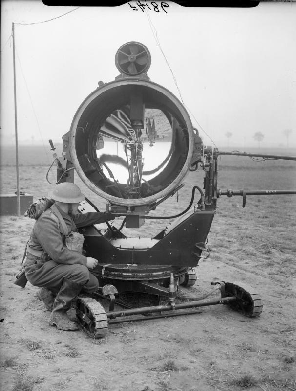 The British Army in France 1940 Searchlight of 10th Battery, 3rd Searchlight Regiment, Royal Artillery, near Carvin, 1 May 1940.